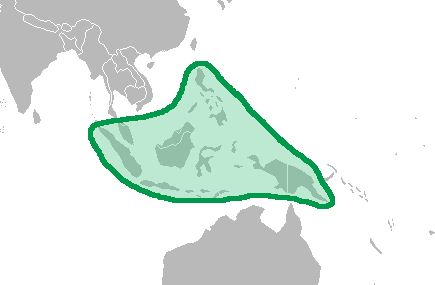 Map of Malesian flora region